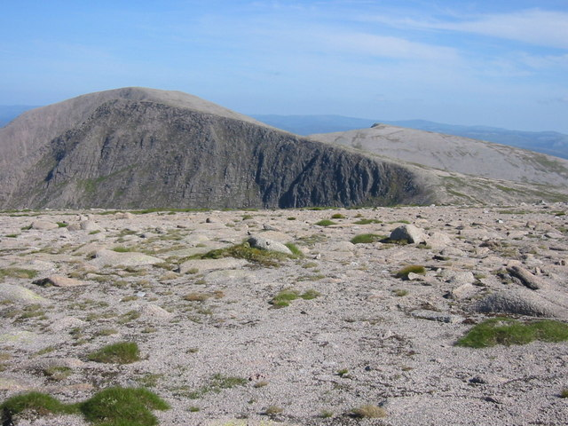 Braeriach Plateau. Towards Sgor an Lochain Uaine (Angel's Peak) with Cairn Toul beyond.